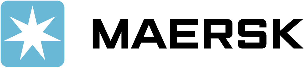 Maersk is a global conglomerate with 108,000 employees in 142 countries. Maersk's shipping companies provide comprehensive coverage of the world's need for cargo, oil and gas transport, terminal services and on-land logistics. The energy-related business units include drilling and platform service companies, as well as one of the world's leading independent oil and gas firms.